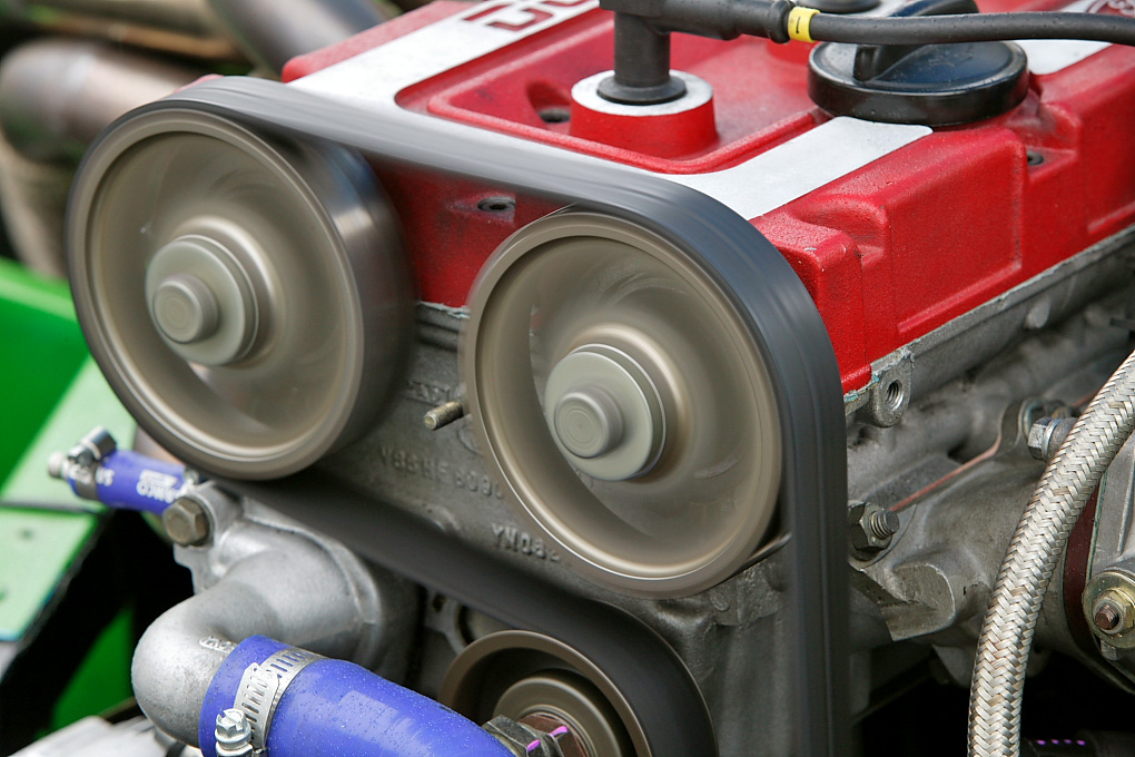 Ford Cosworth BDR engine